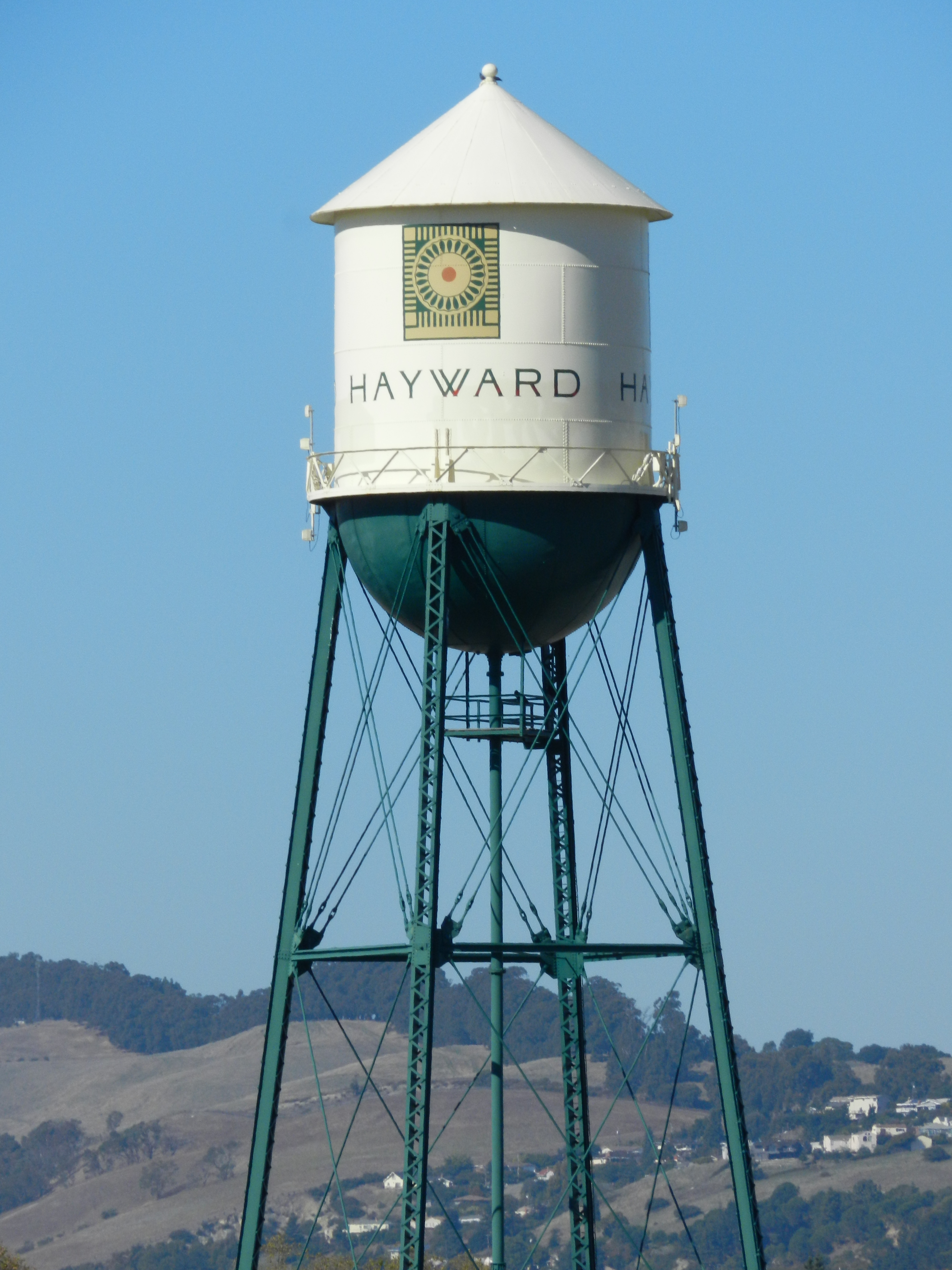 Water tower in Hayward, California, near the old Hunts canning area, from railroad overpass on Winton Blvd.